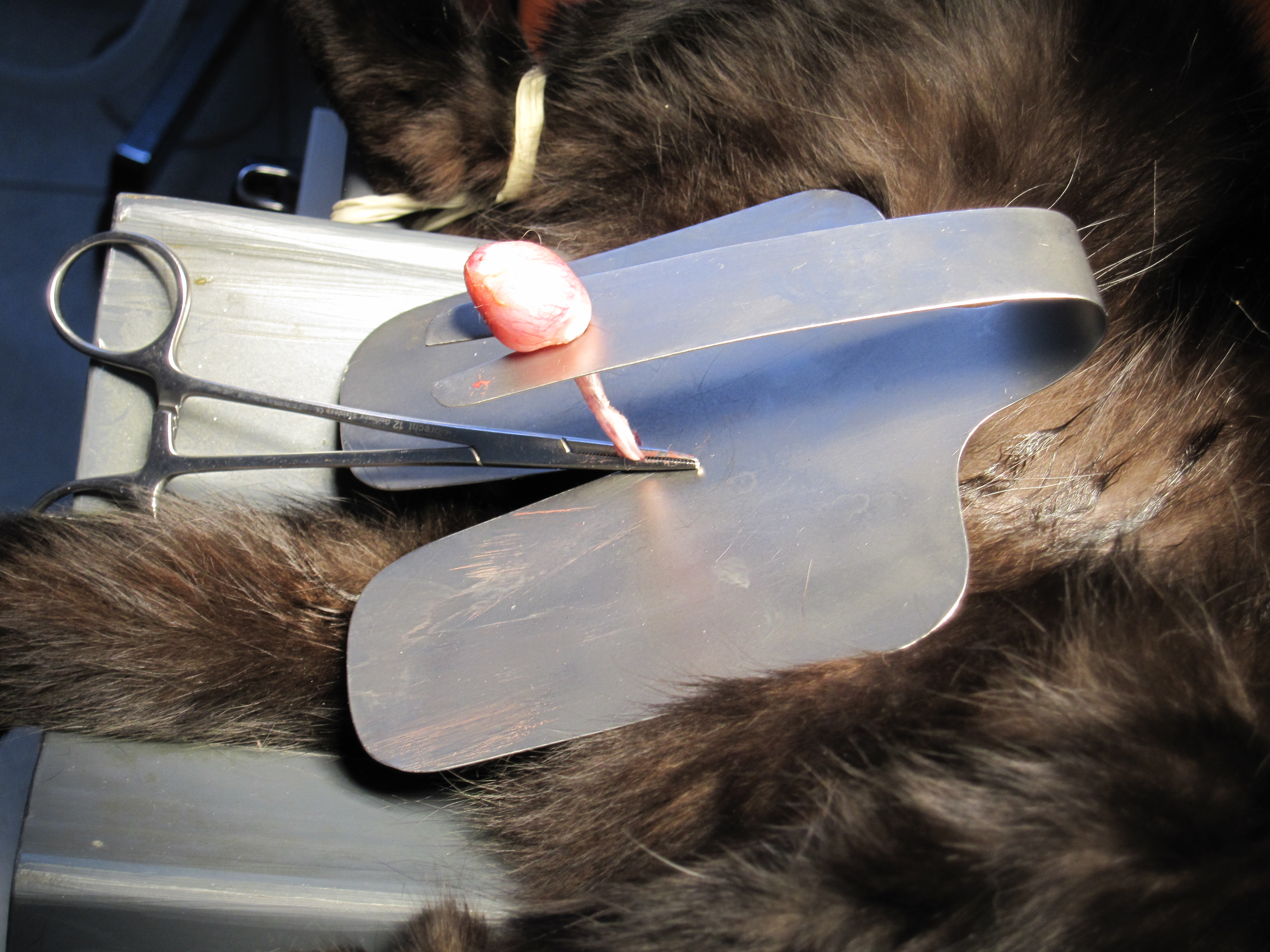 Neutering of a cat